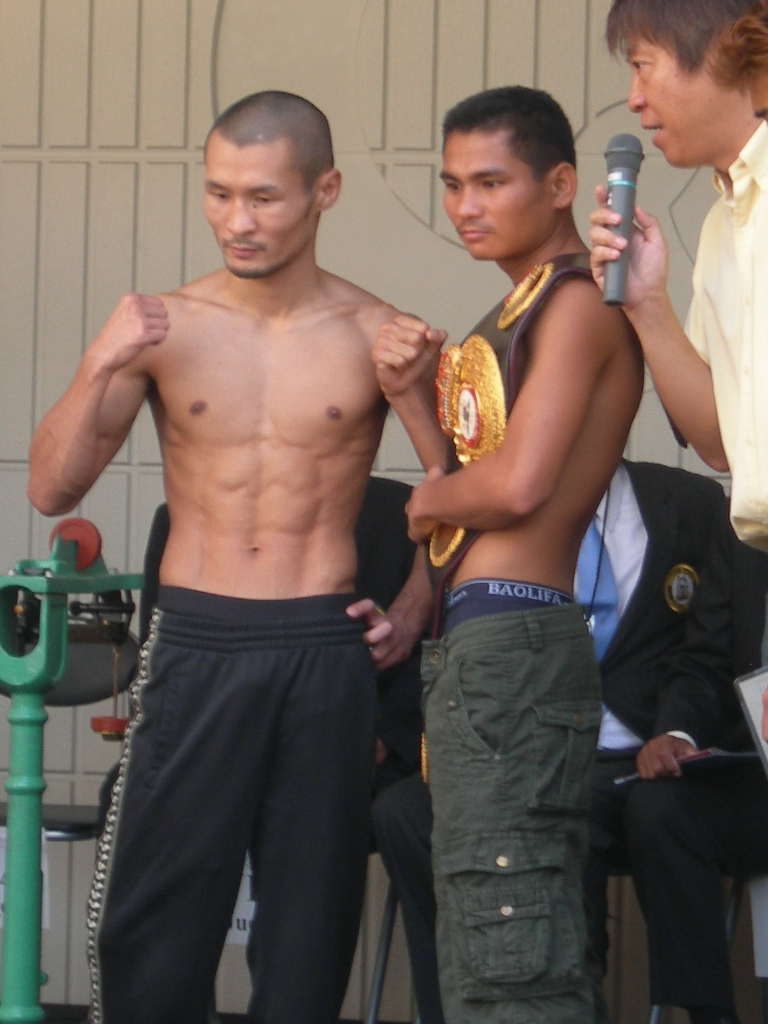 WBASuper Flyweight Champion, Tepparith Singwancha (right) and Nobuo Nashiro. Weigh-in from Abeno Cues Town, Abeno-ku, Osaka.